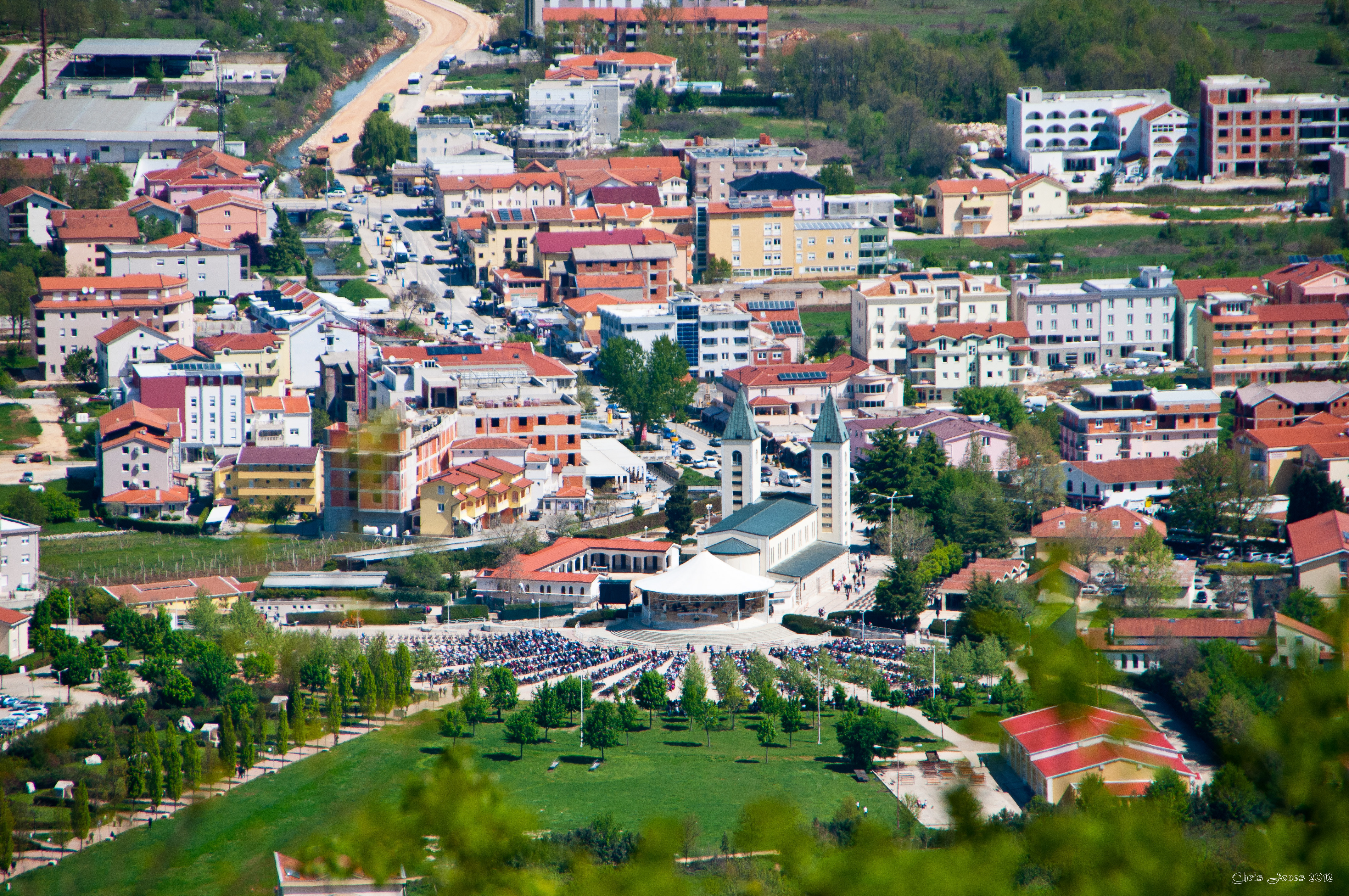 Međugorje - Catholic Church